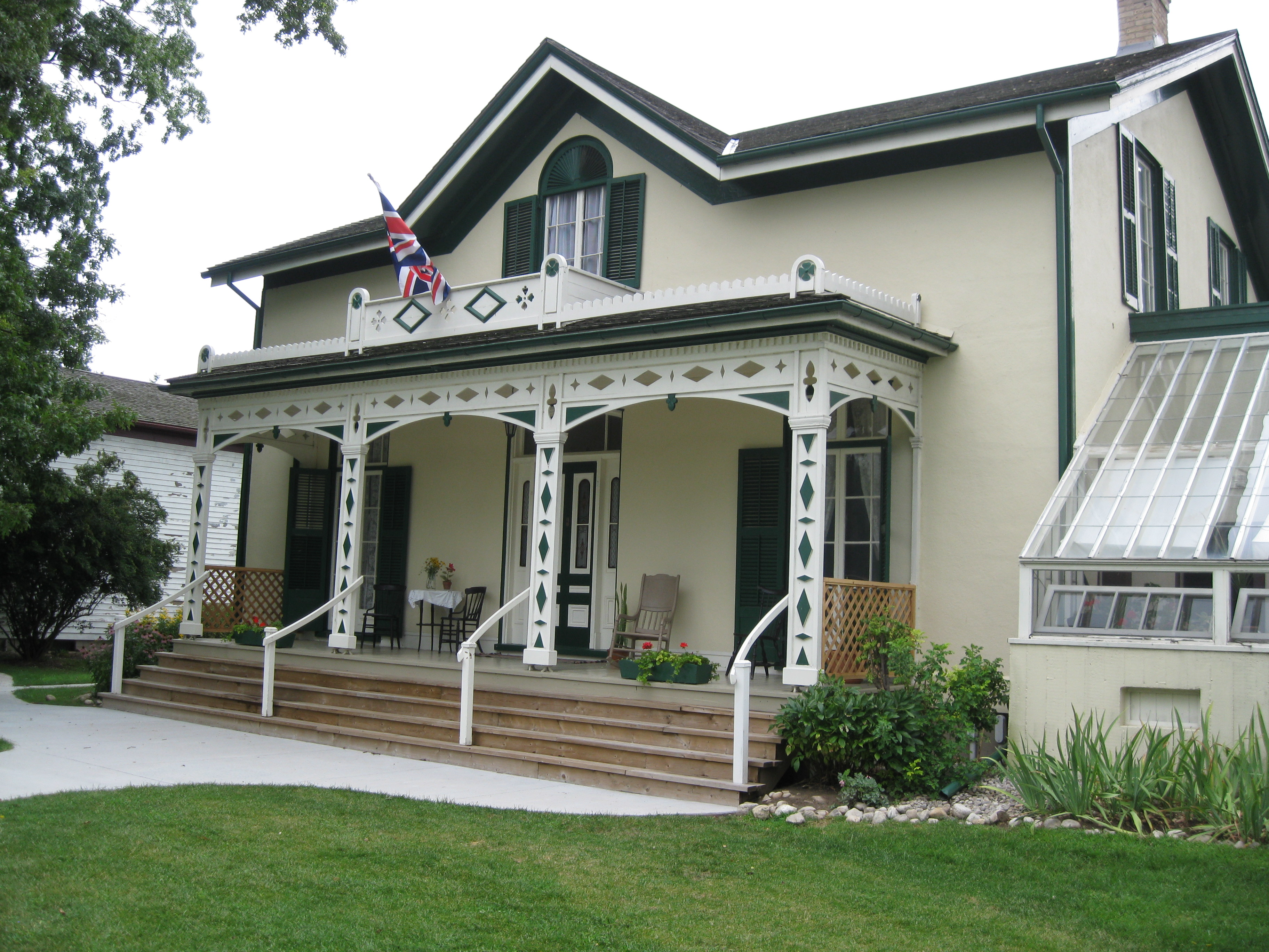 The Bell Homestead, the Bell Family's first home in Canada, now preserved as a museum to A.G. Bell in Brantford, Ontario.